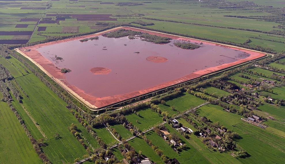 Red mud dump close to Stade (Germany)